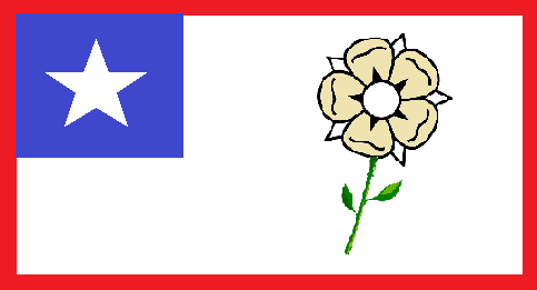 This is the "Friendship flag", which is used as the city flag of Pass Christian, Mississippi. Additional information about the flag can be found here.